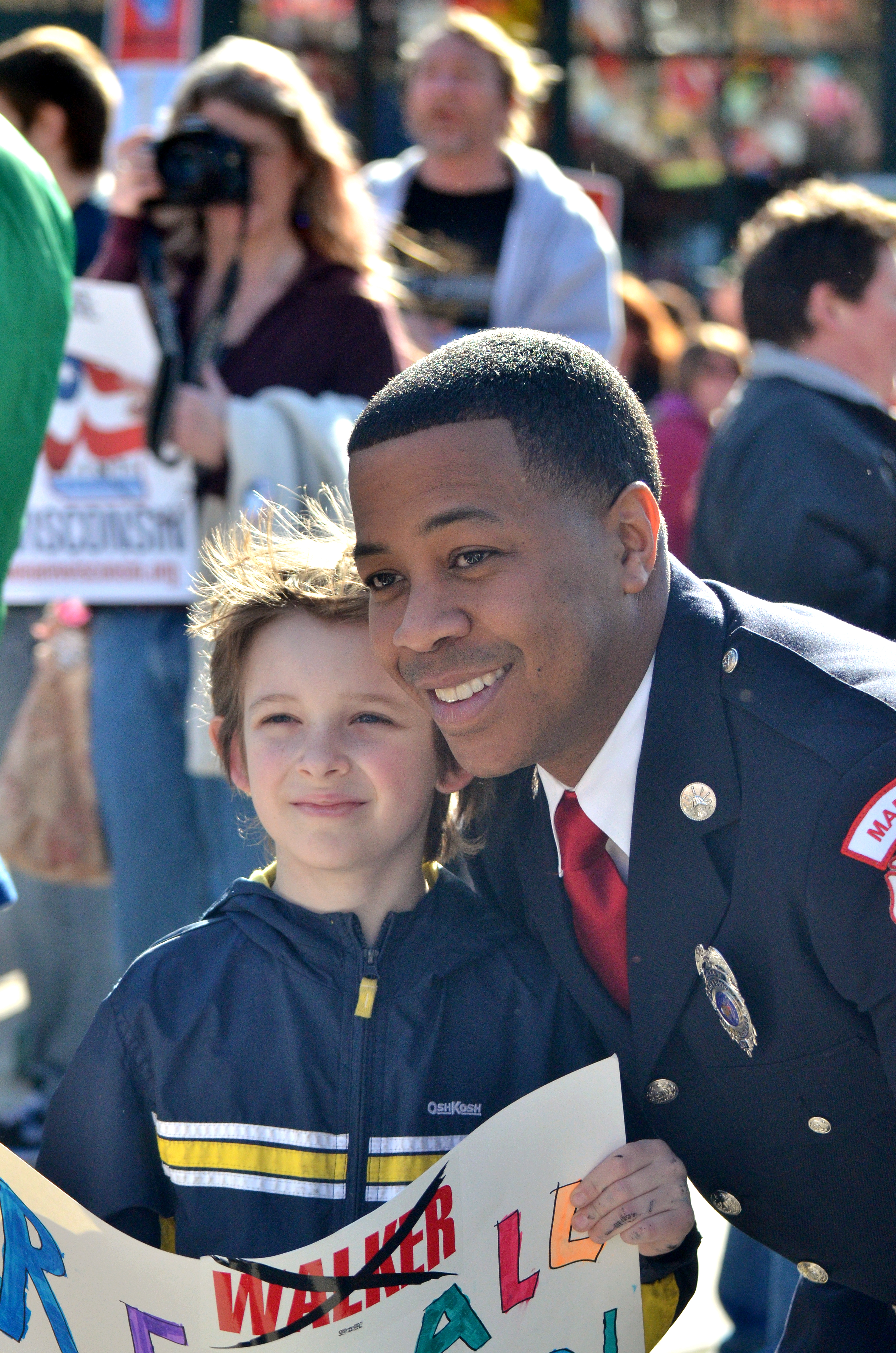 Mahlon Mitchell, Madison Fire Department engineer and union rep, pictured at the 3-10-2012 Reclaim Wisconsin rally at the State Capitol in Madison in support of recall efforts against Governor Scott Walker